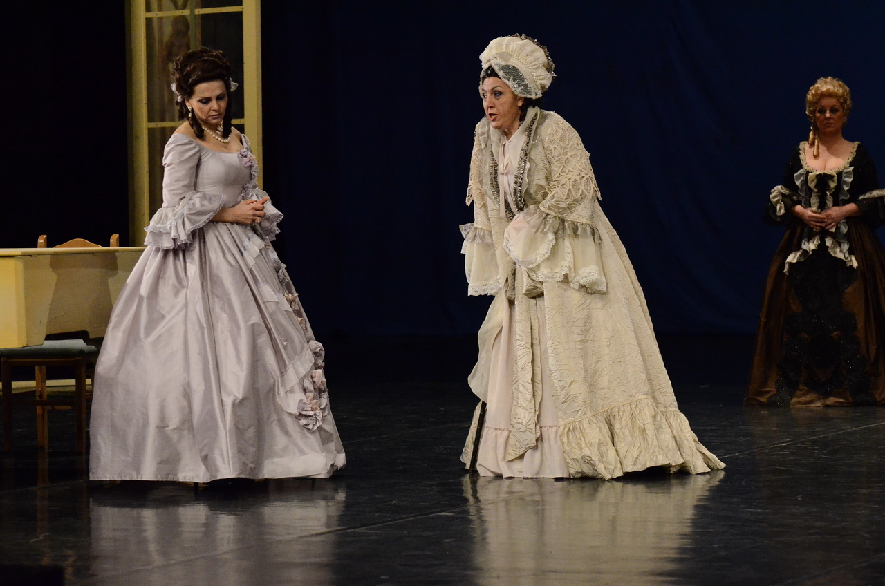 "The Queen of Spades" by Pyotr Ilyich Tchaikovsky; directed by Oleg Meljnikov; Opera of the Serbian National Theatre, Novi Sad, 2010/11, Svitlana Dekar, Marina Pavlović Barać Srpski (latinica): "Pikova dama" Petra Iljiča Čajkovskog, u režiji Olega Meljnikova; Opera Srpskog narodnog pozorišta, Novi Sad; 2010/11, Svitlana Dekar, Marina Pavlović Barać Српски (ћирилица): "Пикова дама" Петра Иљича Чајковског, у режији Олега Мељникова; Опера Српског народног позоришта, Нови Сад; 2010/11, Свитлана Декар, Марина Павловић Бараћ